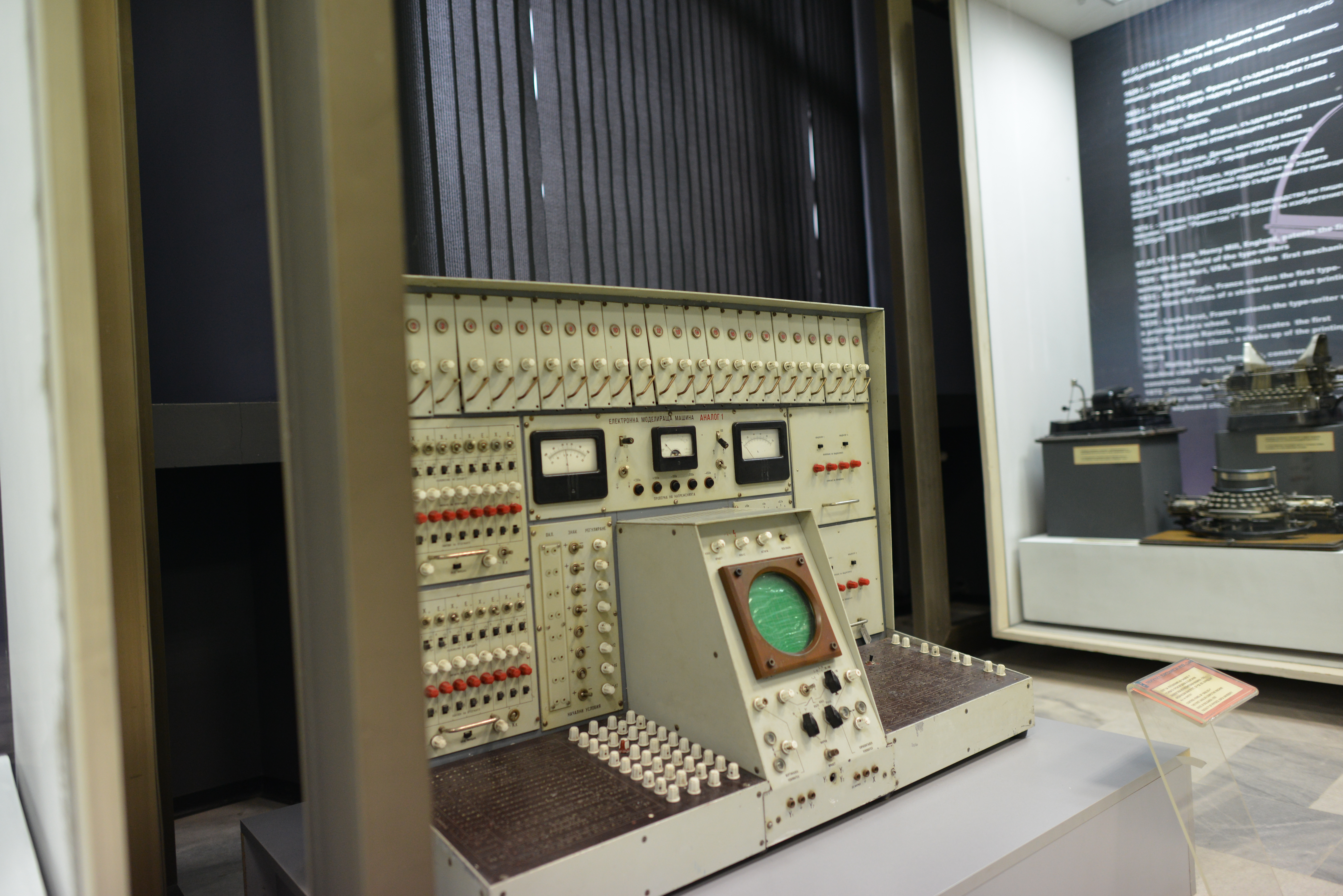 Electronic modelling machine "Analog 1". Exhibited at the National Polytechnic Museum, Sofia.